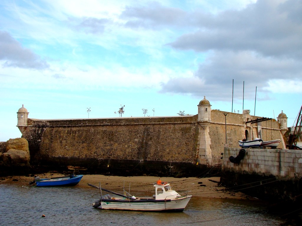 Lagos's Fortress